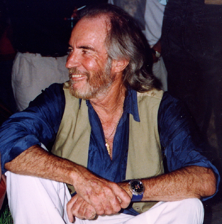 The artist Mati Klarwein